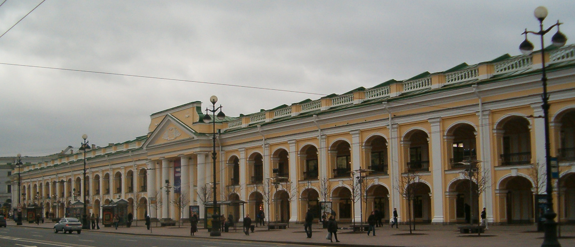 Bolshoy Gostiny Dvor (35, Nevsky Prospekt, Saint-Petersburg, Russia)